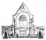 Iglesia Presbiteriana San Andrés del Centro. St. Andrew's Presbyterian Church.